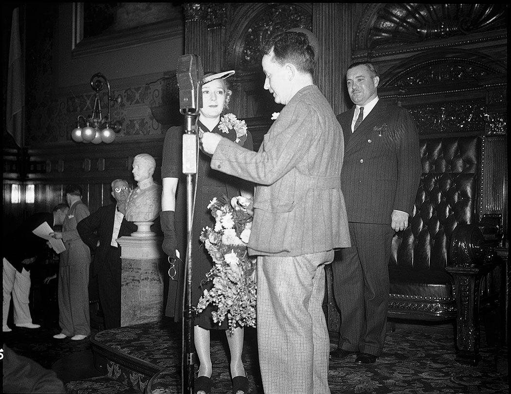 Mary Pickford at microphone in Council Chambers, with Mayor Day and unidentified man (Toronto, Canada)